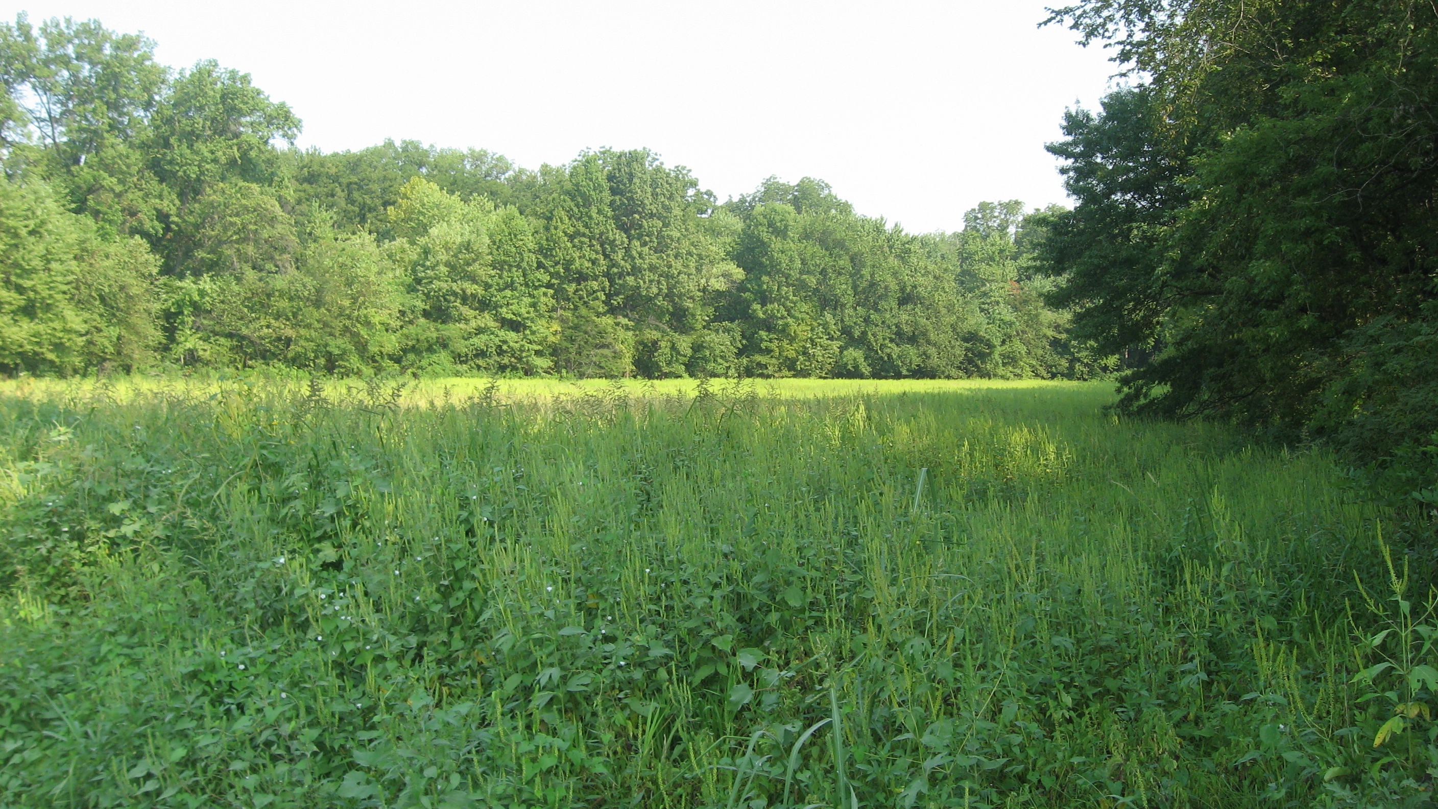 A field in the northern portion of the Weber Village Site, located on the northern side of Road 75S just west of the townsite of Skelton in Wabash Township, Gibson County, Indiana, United States. One of Gibson County's leading archaeological sites, it is listed on the National Register of Historic Places.